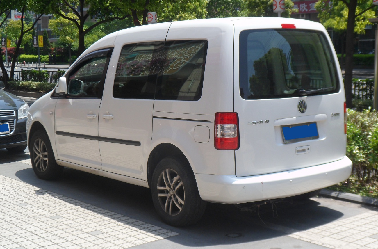 Volkswagen Caddy III photographed in Shanghai, China.